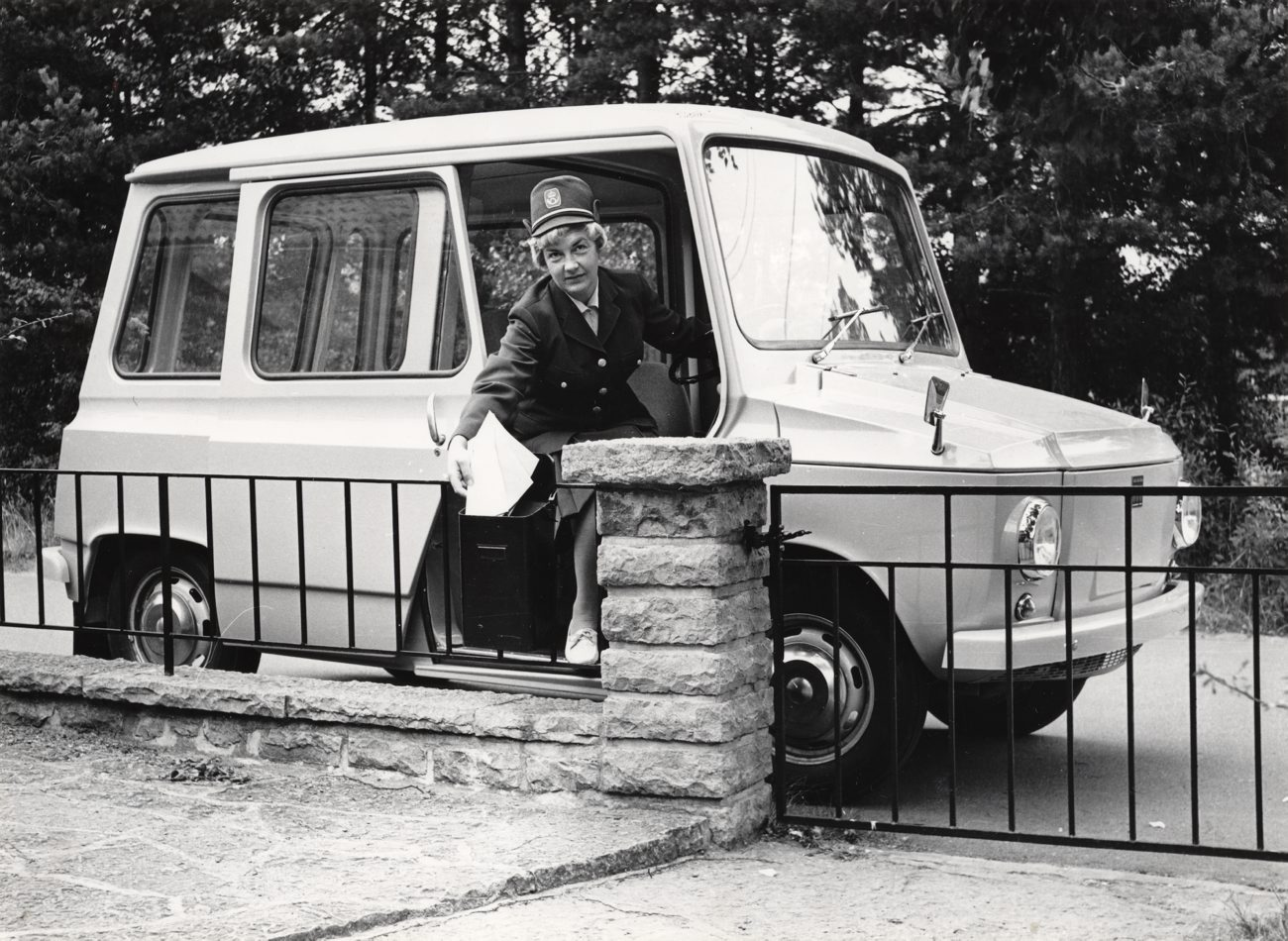 Swedish female postman near the city of Sundsvall in the 1960s, working from a type of mail truck called "Tjorven"